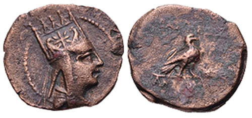 Coin of Antiochus I (69-34 BC), Armenian King of Commagene, wearing Armenian tiara of Tigranes the Great (source: Paul Z. Bedoukian «Coinage of the Armenia Kingdoms of Sophene and Commagene» (pp. 71-88) из Museum Notes (American Numismatic Society) Vol. 28 (1983); p. 87-88 and plate 12, image 25—26)